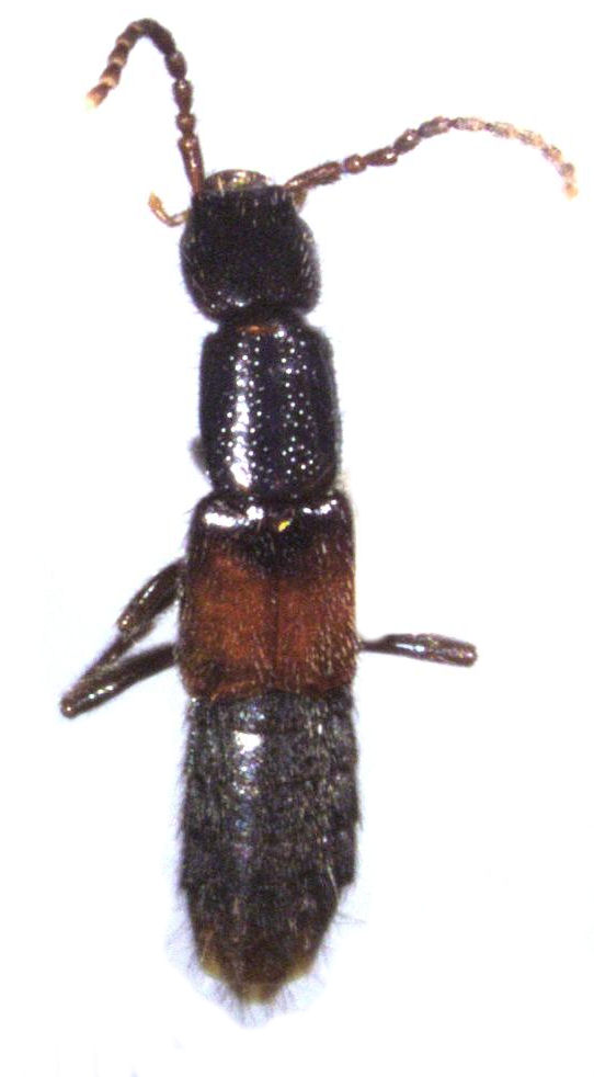 adult Scymbalium laetum